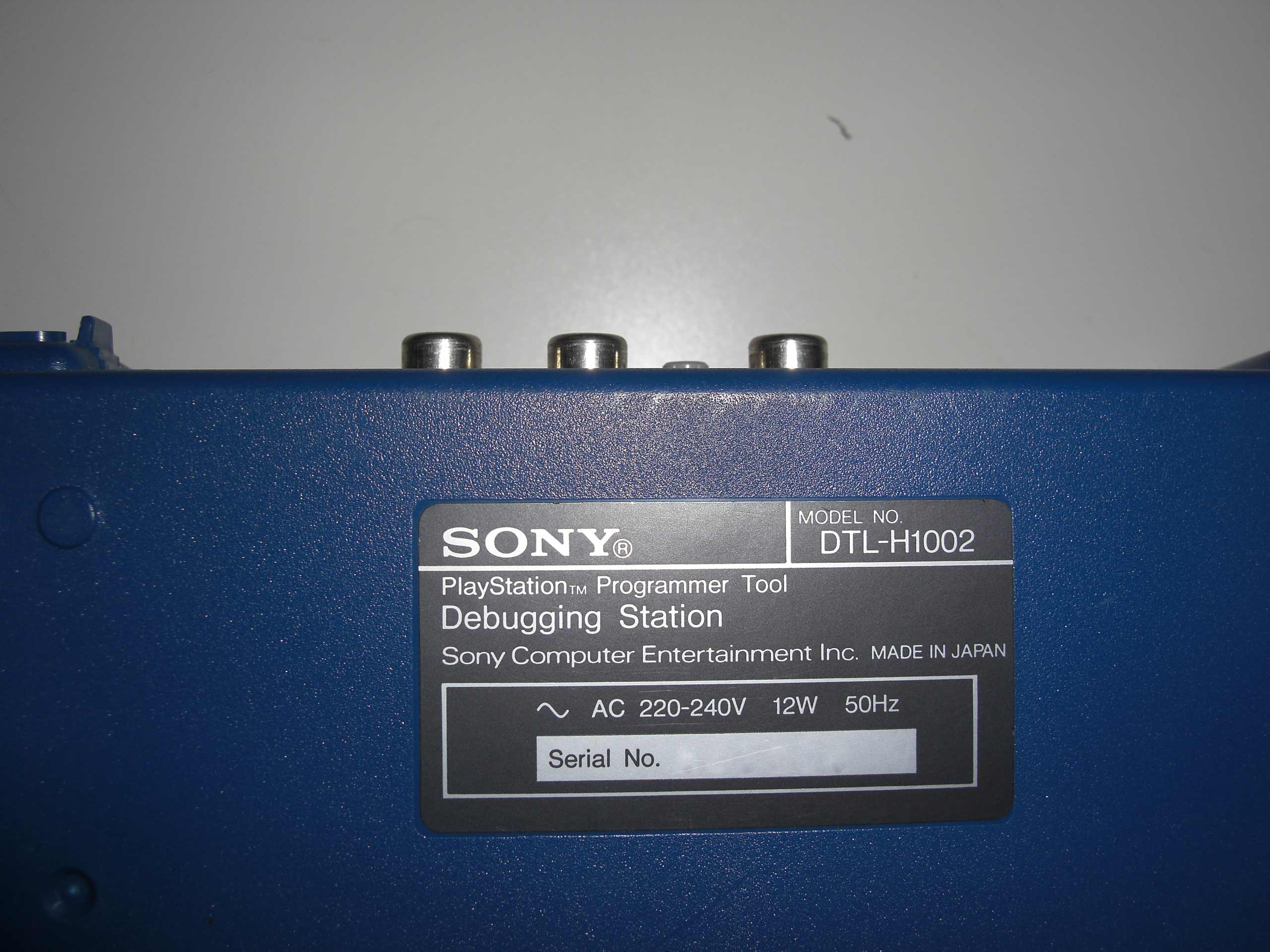 S1 (PSX) Playstation Debugging Stadion Blue